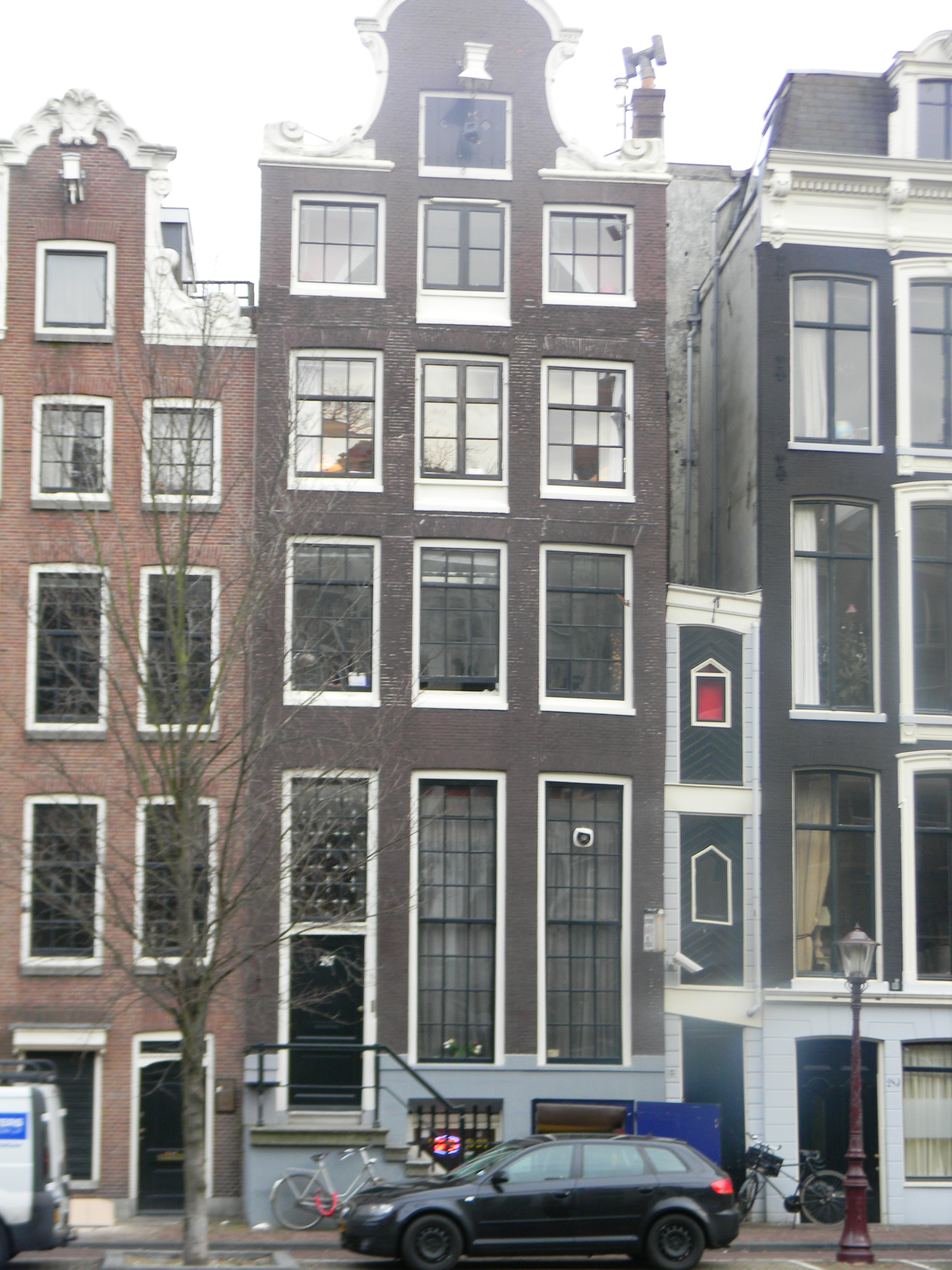 Herengracht 287